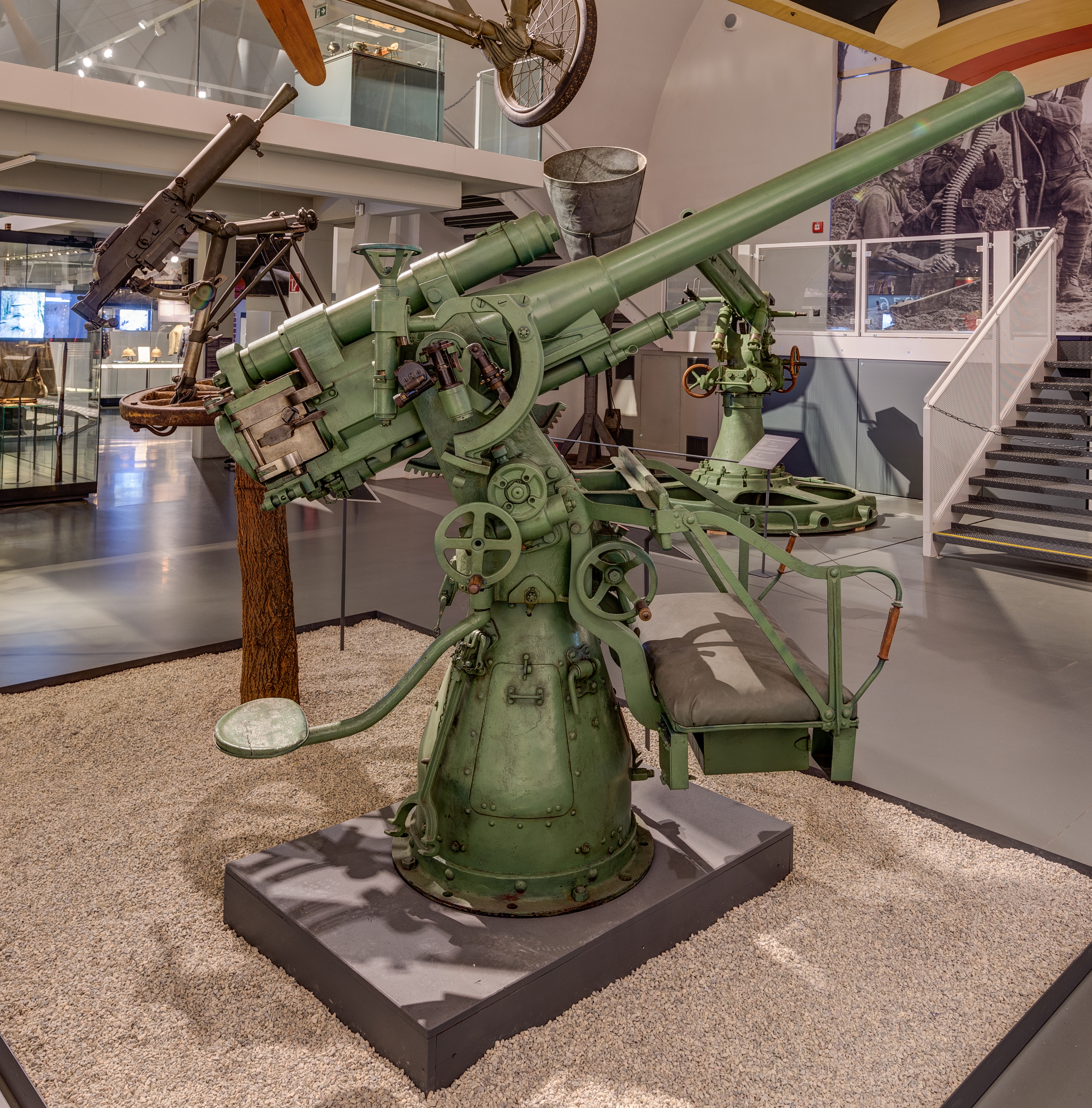 anti-aircraft gun, World War I., Museum of Military History, Vienna' This image was uploaded as part of European Science Photo Competition 2015.